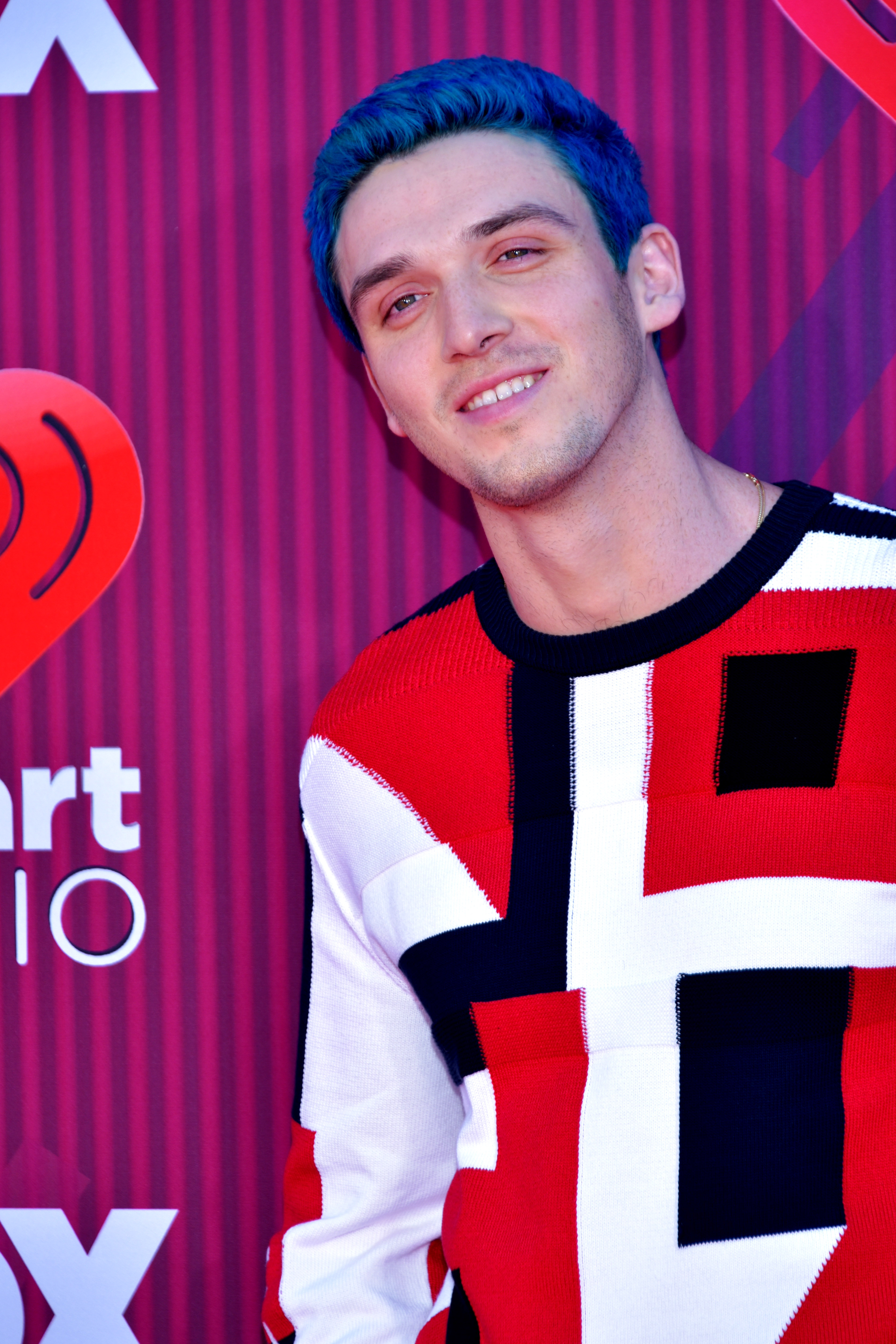 Lauv at the 2019 iHeartRadio Music Awards in Los Angeles California on March 14, 2019 - Photo by Glenn Francis of